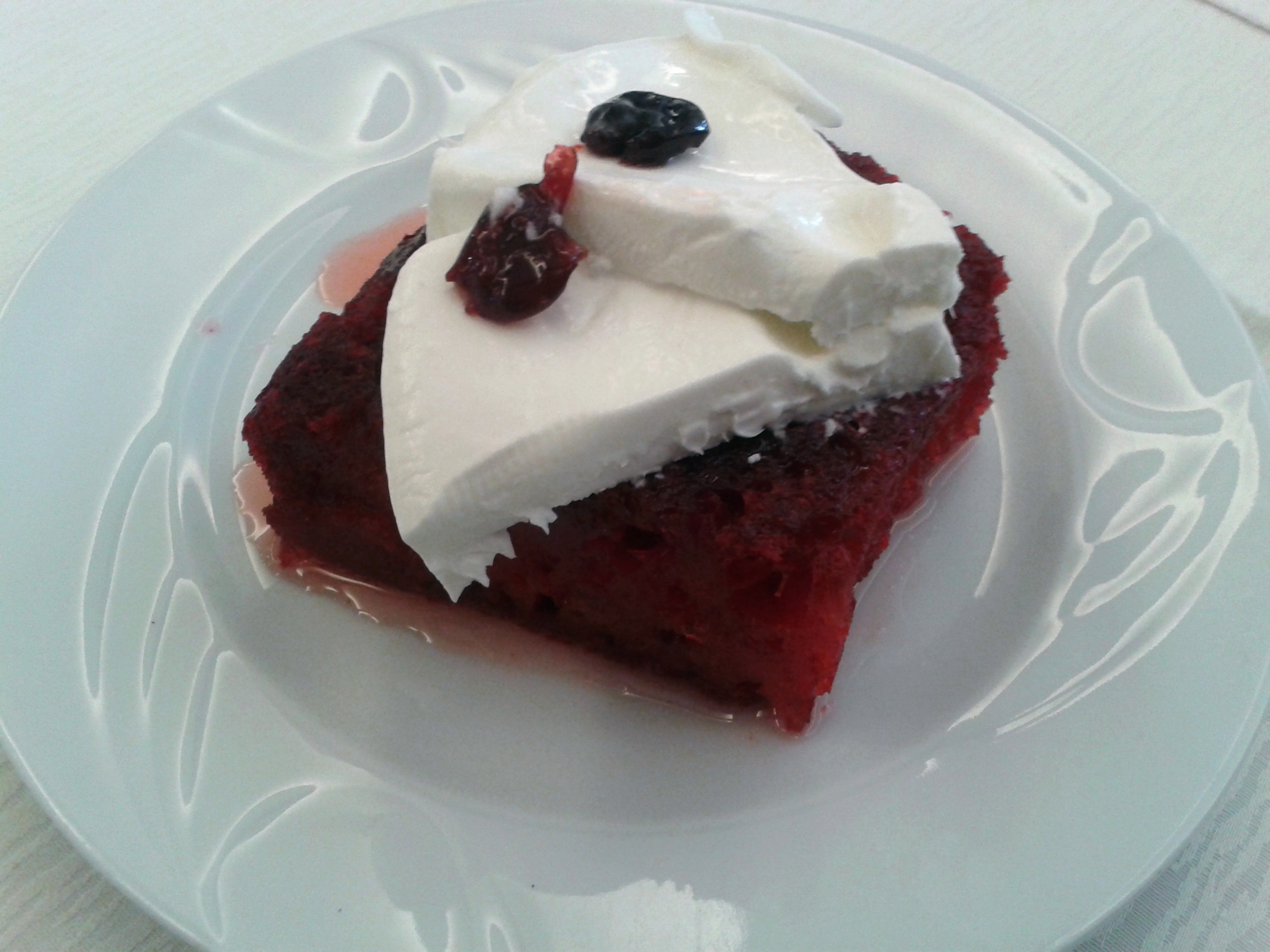 Vişneli ekmek kadayıfı - Ankara.